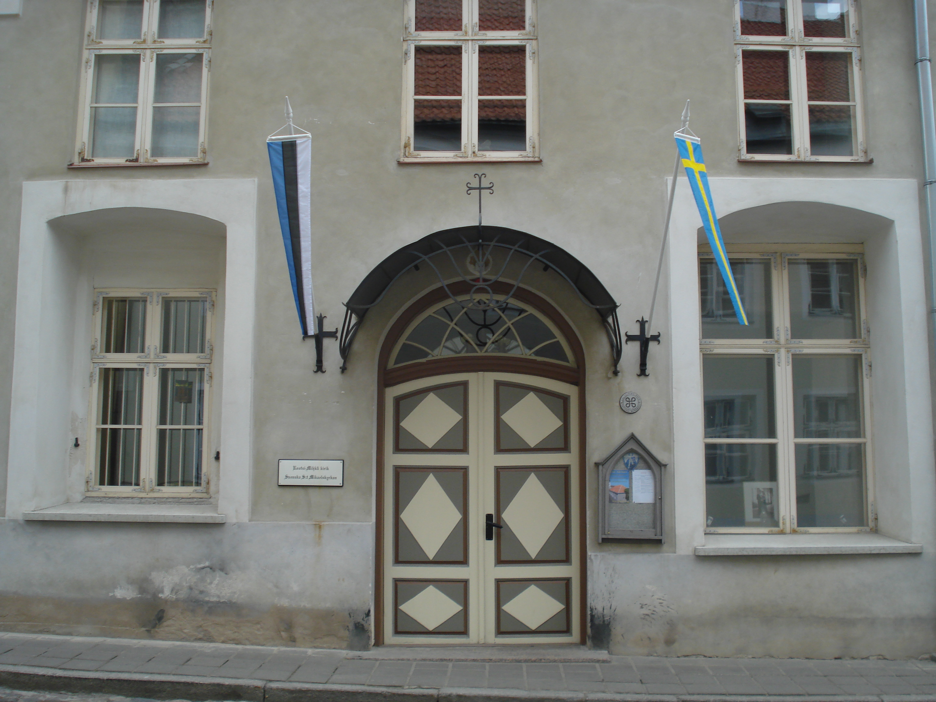 Swedish St Michael's Church in Tallinn. Rüütli 9